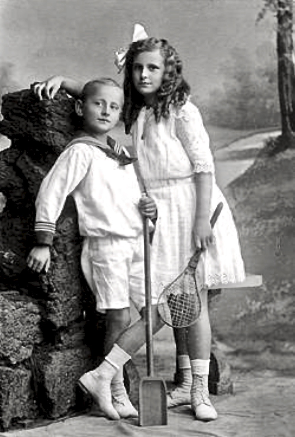 The siblings Heinz (1905–1944) and Leni Riefenstahl (1902–2003) tidied up for the picture in a Berlin-based photo studio, circa 1914.